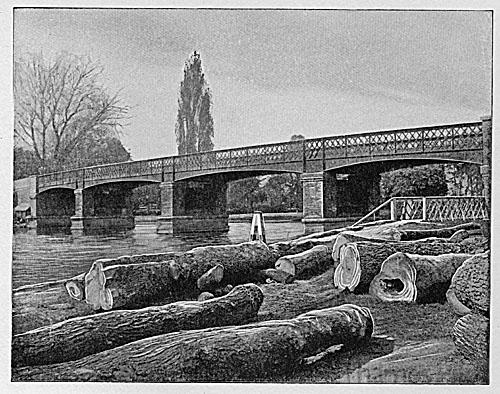 Road and rail bridges across the Thames and side streams - Walton Bridge (Thames Bridges from the Tower to the Source, James Dredge, Jr., 1897)